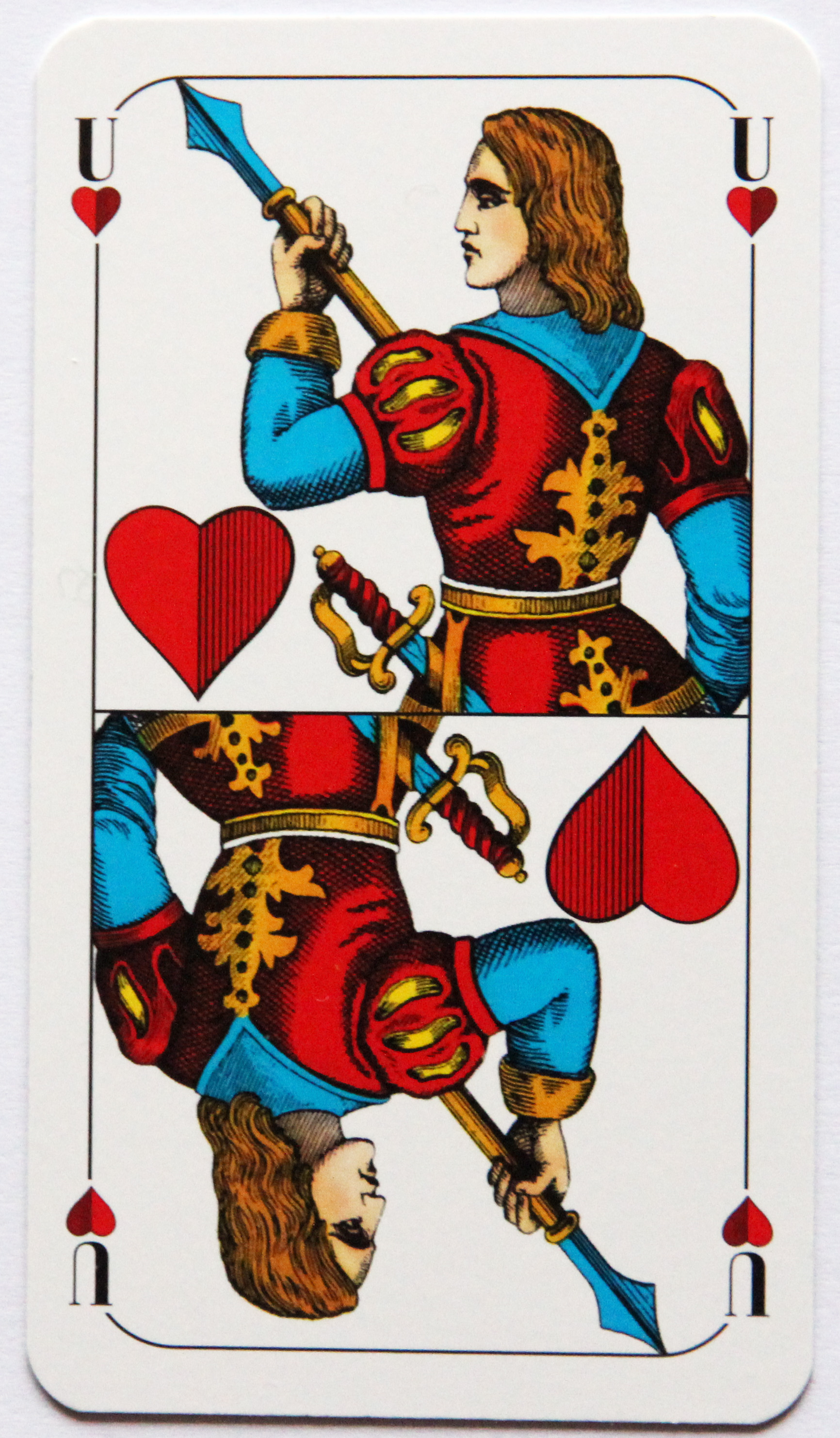 The Unter of Hearts from a Bavarian-pattern, German-suited pack